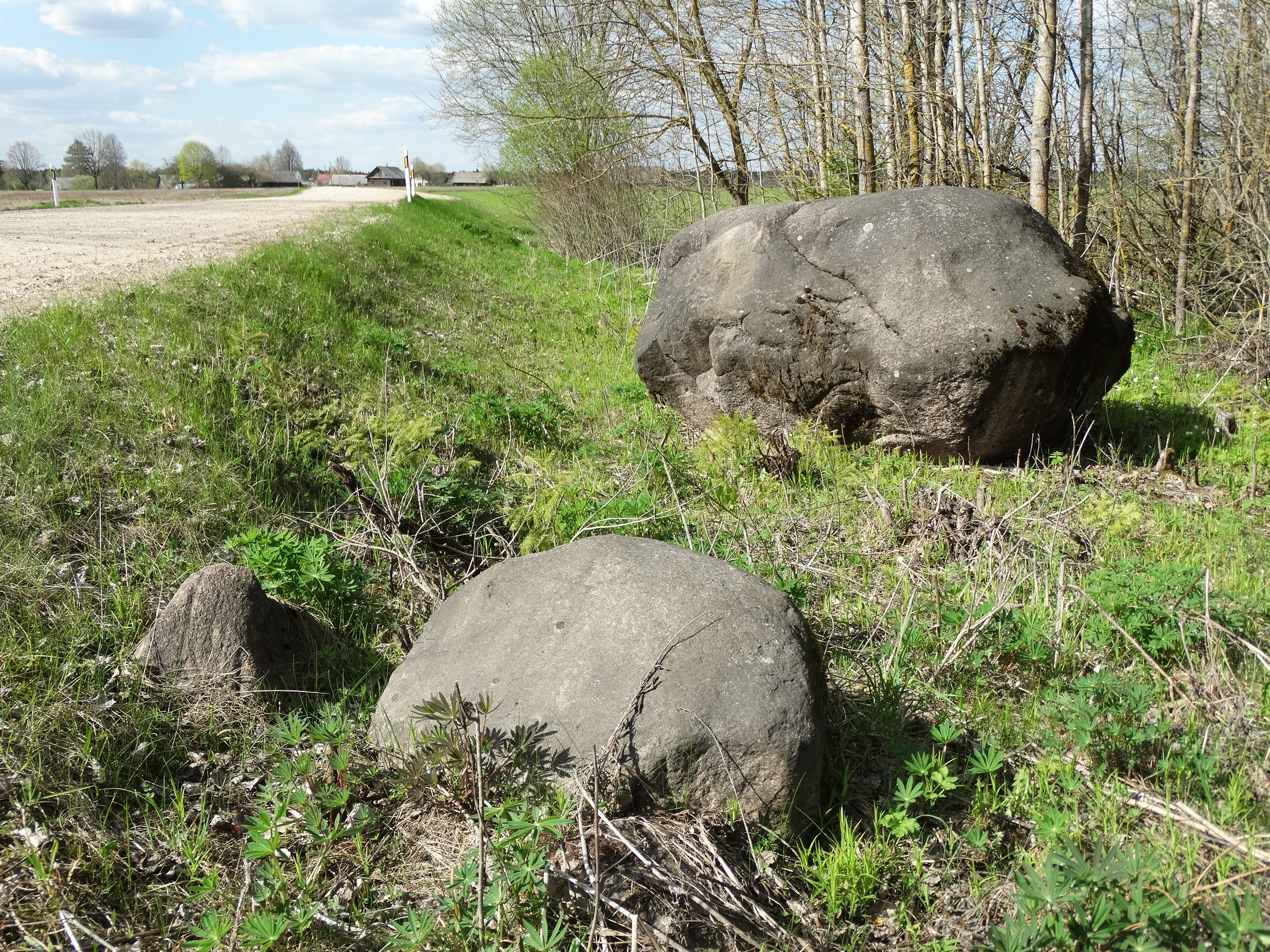 Kalviai Stone, Šalčininkai District, Lithuania